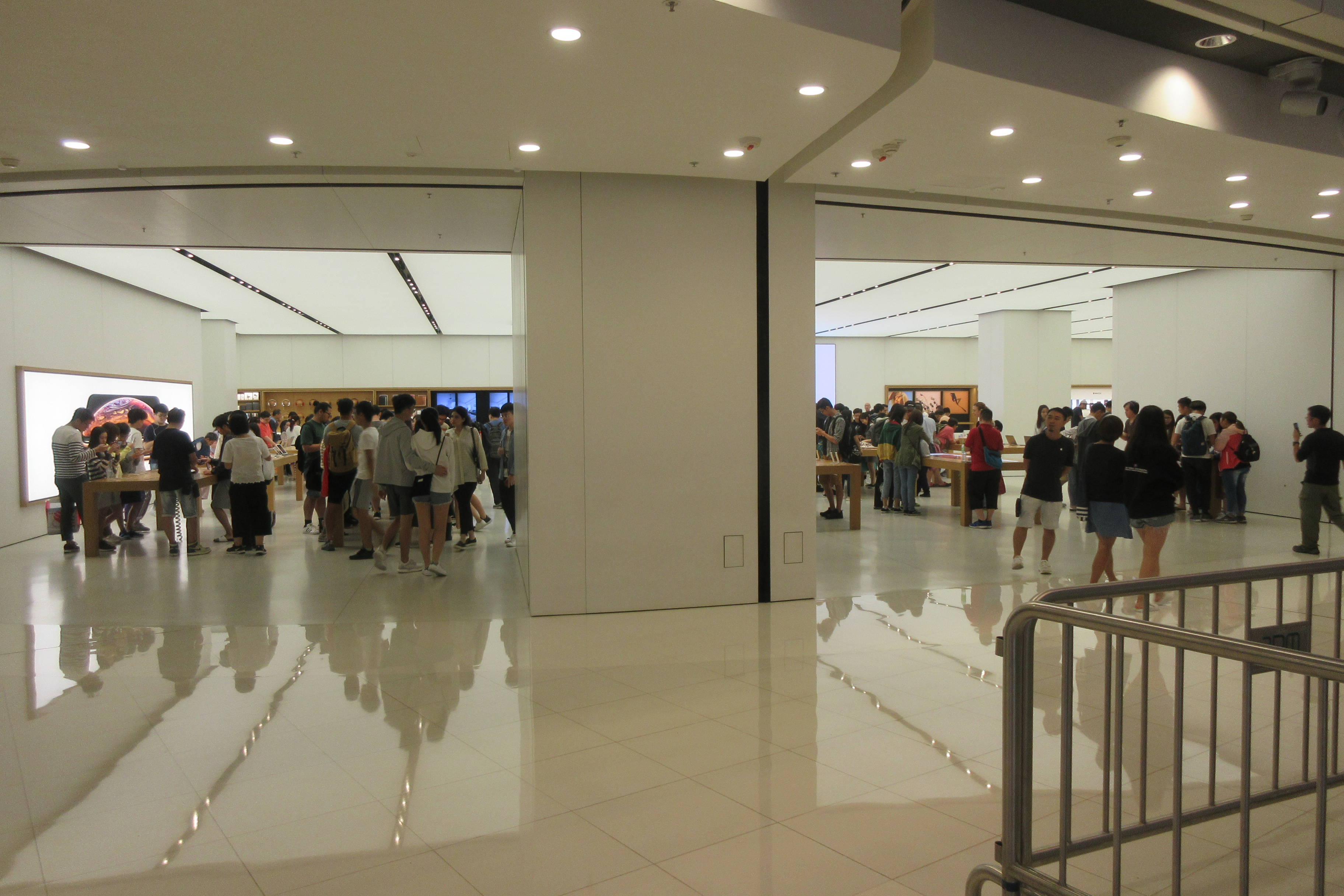 HK 觀塘 Kwun Tong 創紀之城 APM mall shop night in October 2018